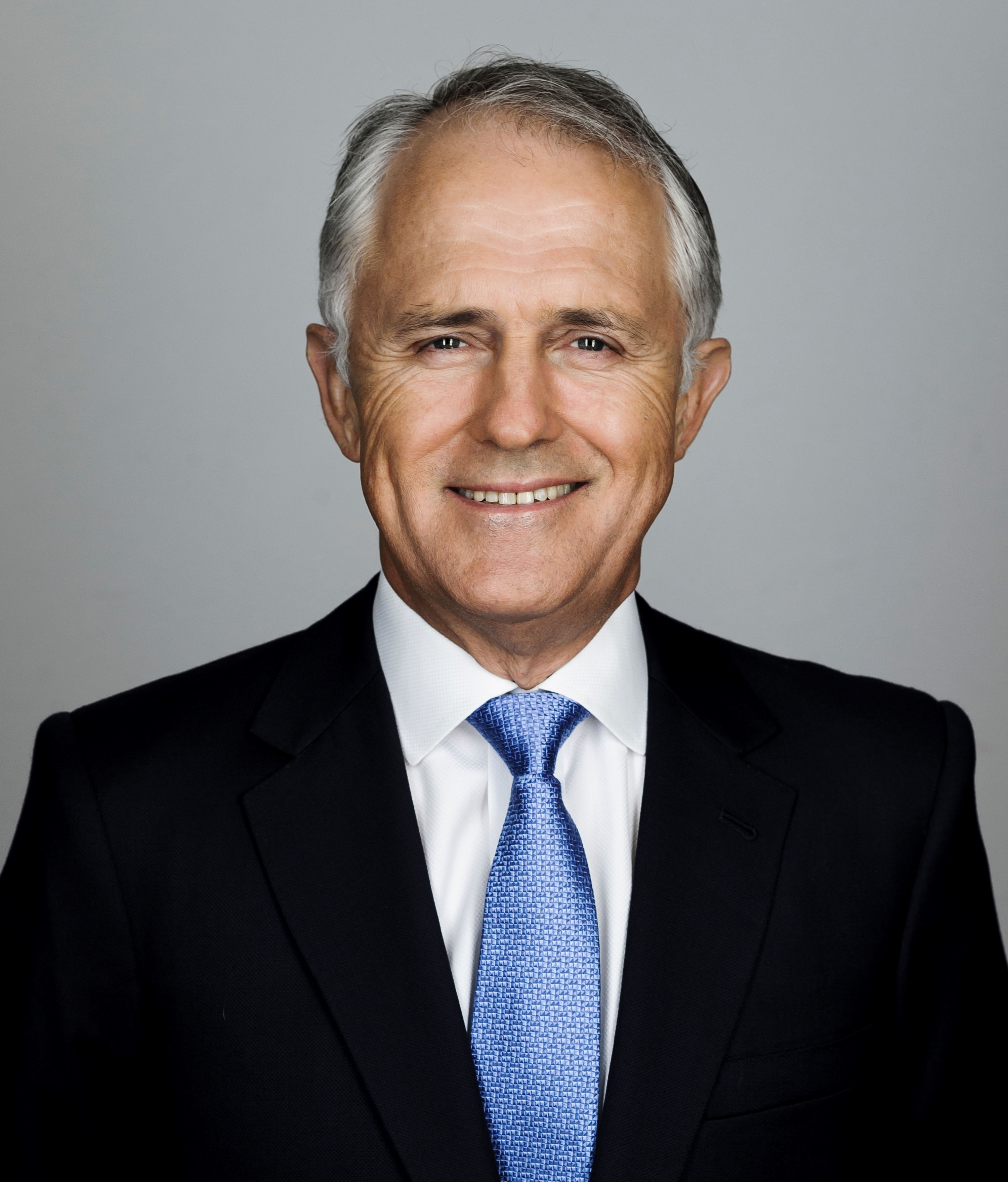 Official portrait of Malcolm Turnbull, Prime Minister of Australia.